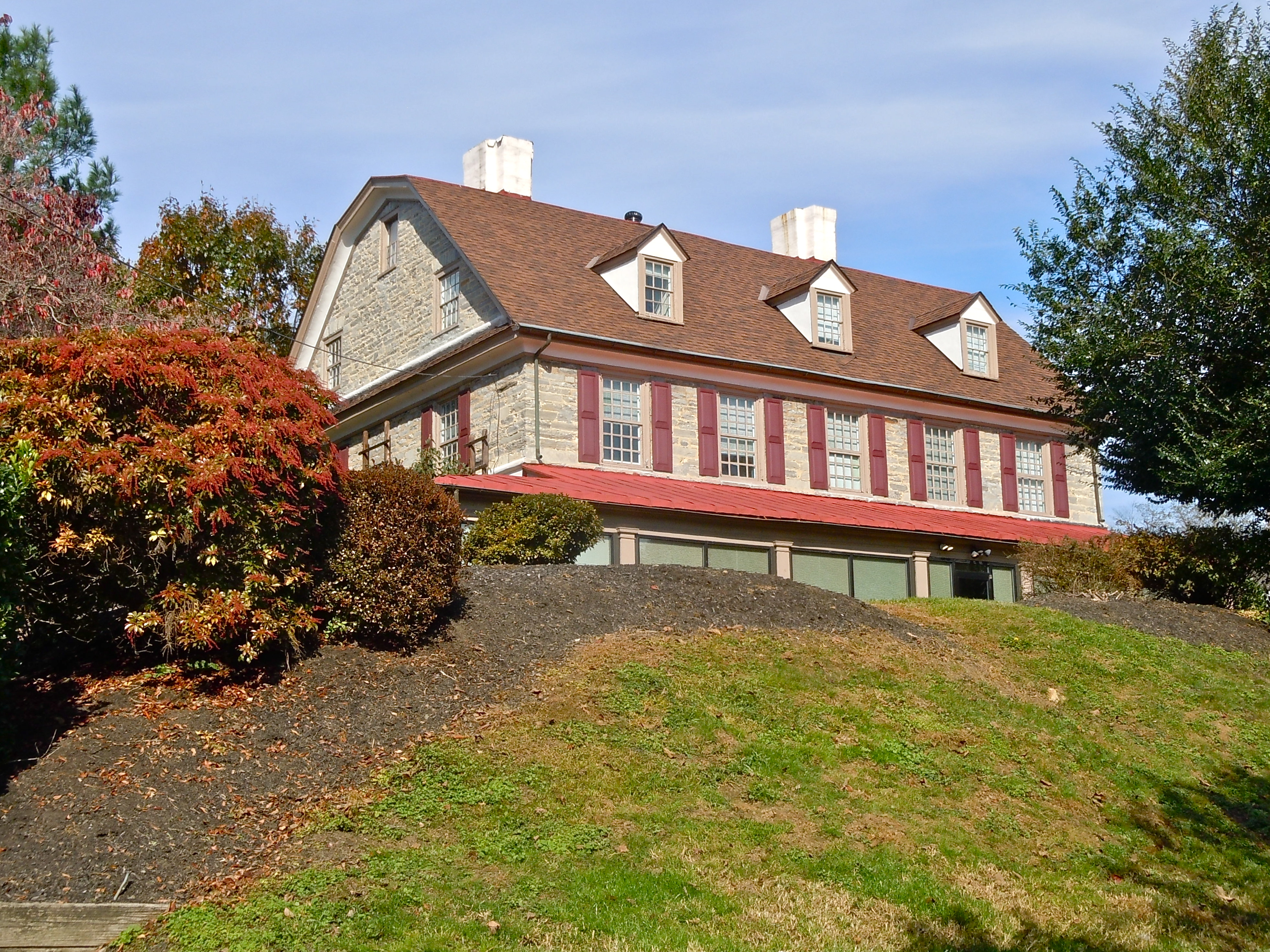 "Mount Joy" a house on the NRHP since March 11, 1971. Near North Lane and Hector Street, Conshohocken, Montgomery County, Pennsylvania. Note that three NRHP sites are located near the same corner, but this is high on the hill above Hector Street.